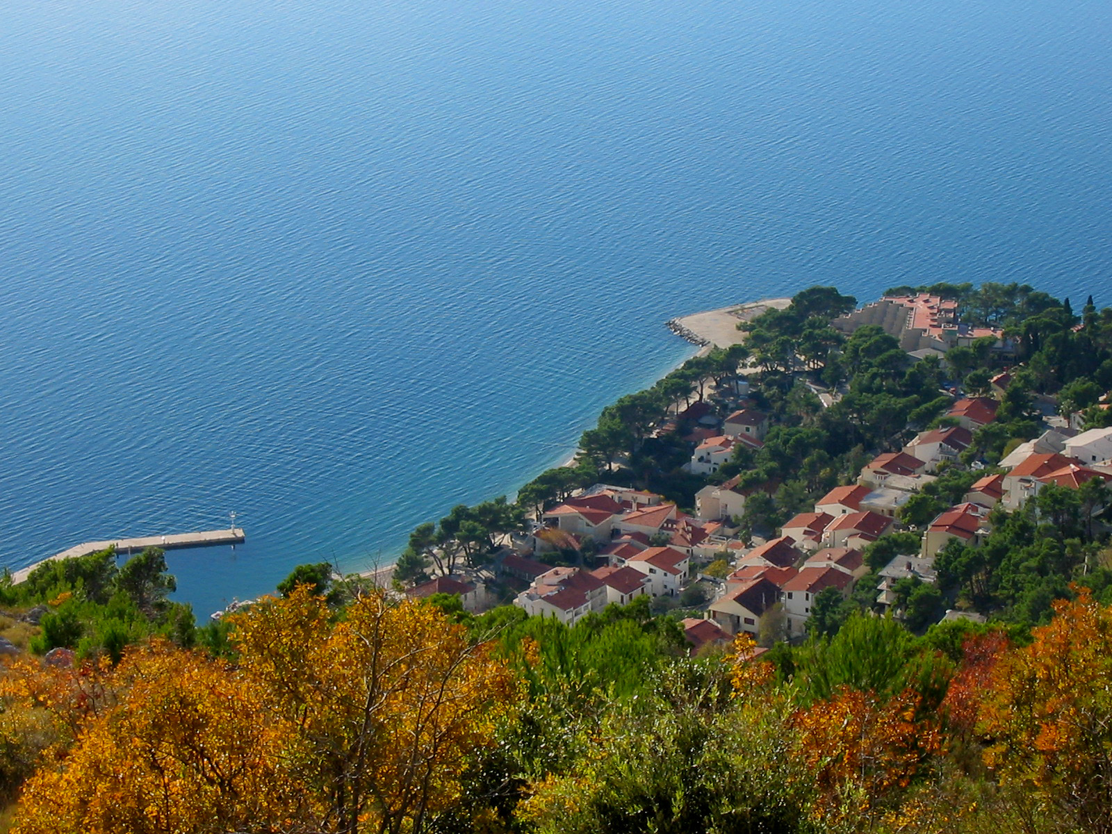 Panoramic view of district Soline in Brela.